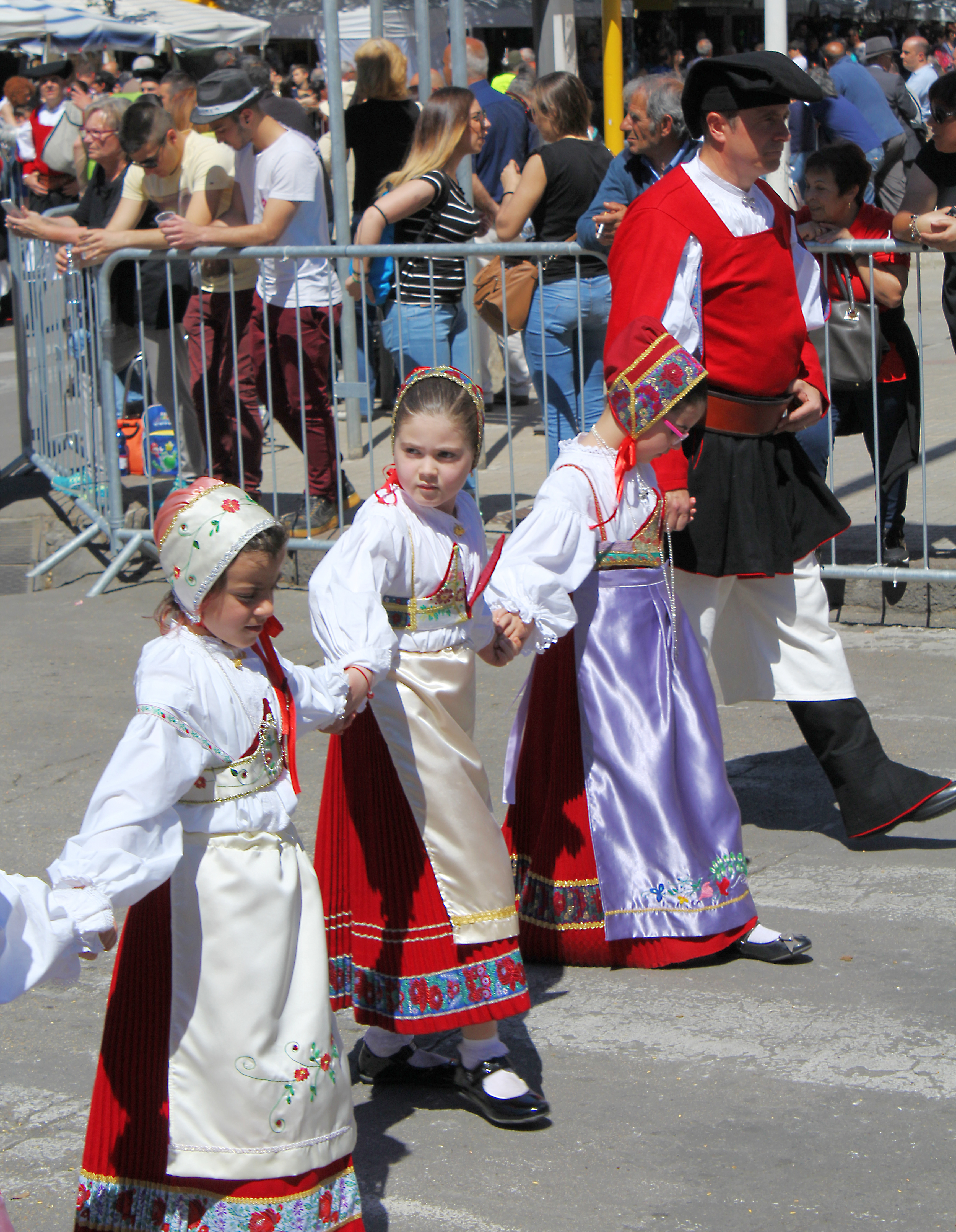 Sardinian Cavalcade Festival, 2016 Folk Costumes of Sardinia